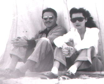 Princess Fawzia of Egypt with 2nd husband Ismail Chirine 1949